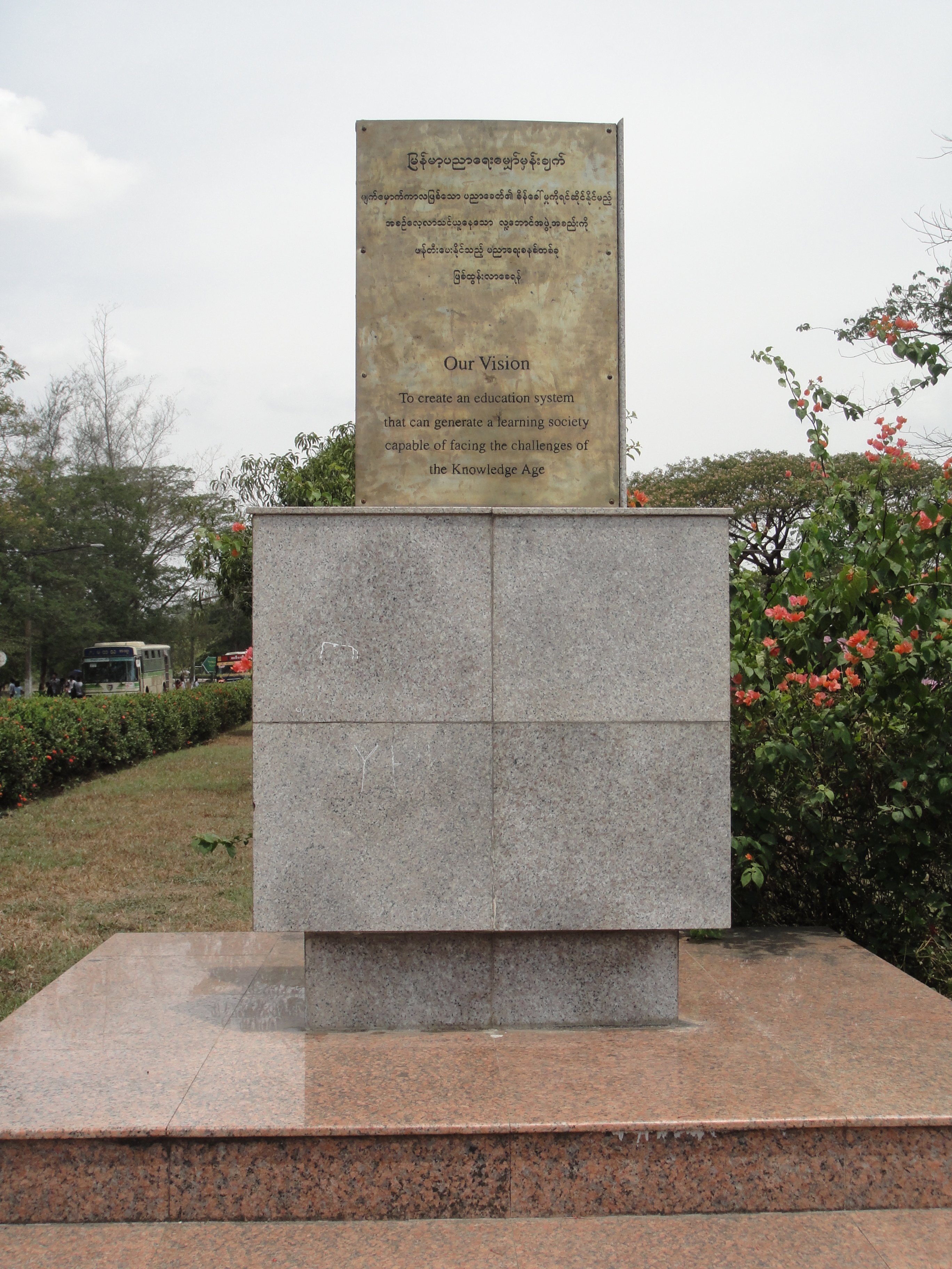 A plaque with the vision statement of Dagon University, Yangon, Myanmar.